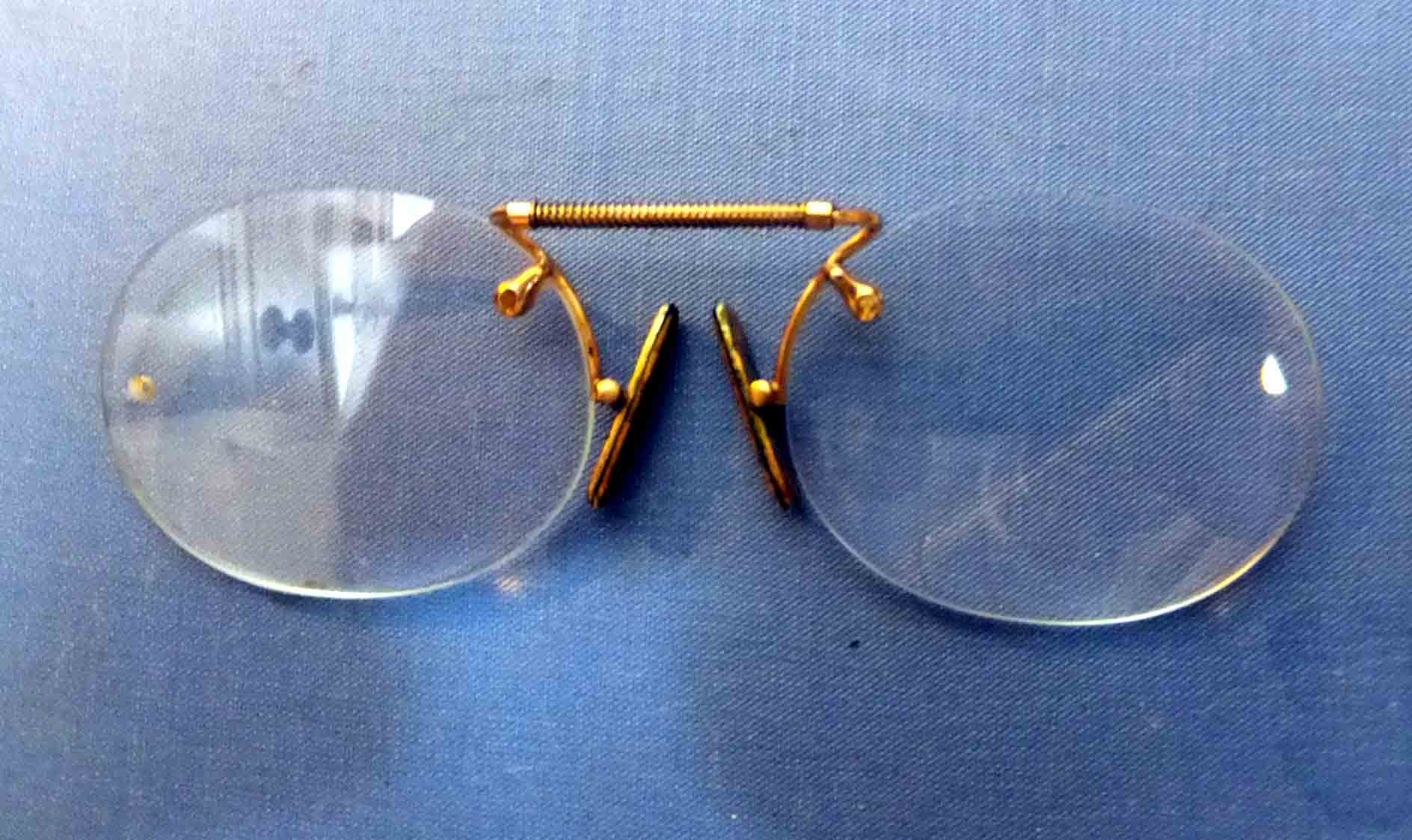 photo of a rimless example of the Astig Pince Nez